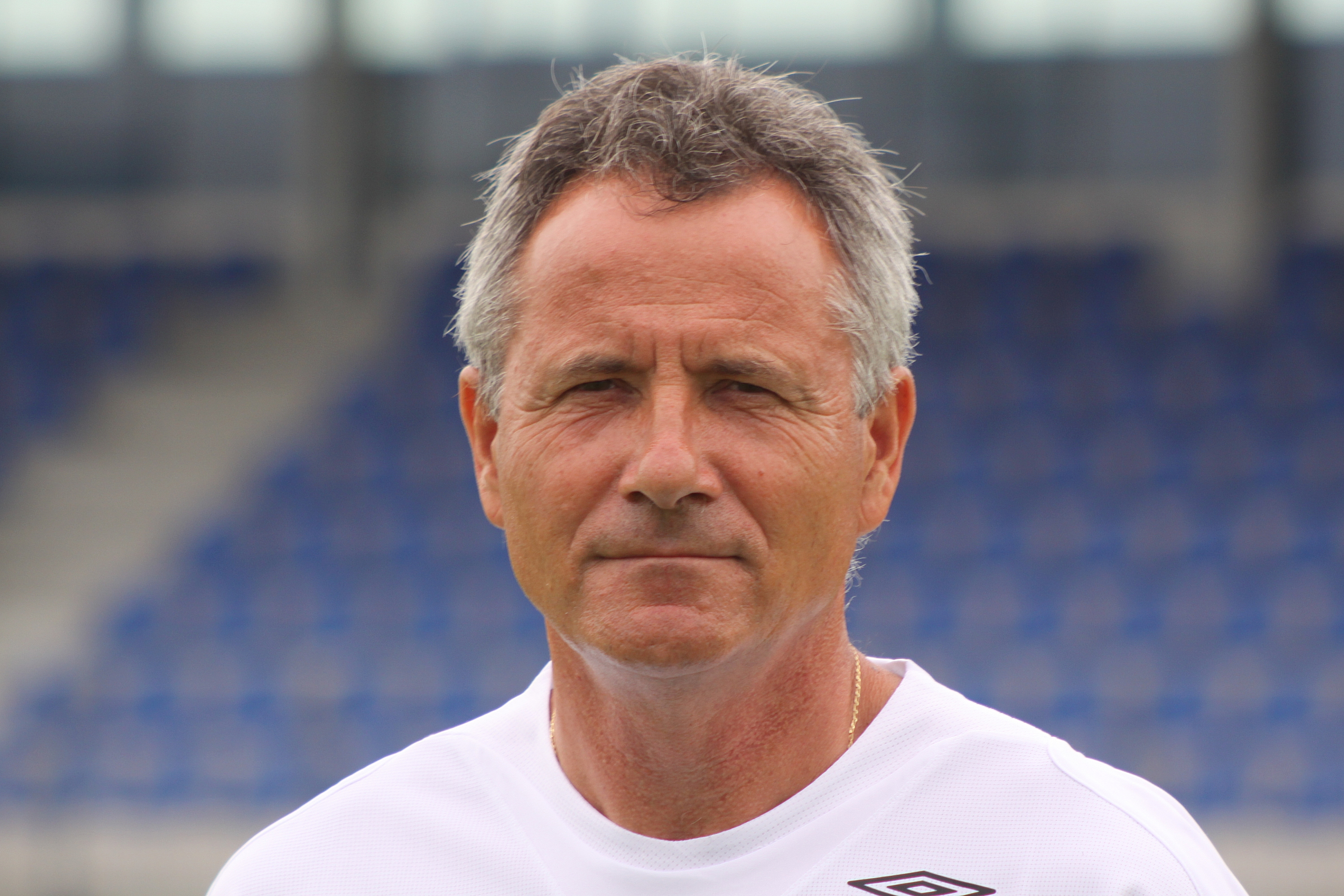 František Komňacký, Coach - FK Baumit Jablonec